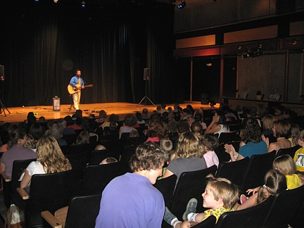 Children's entertainer Eric Herman performing at a theater in Colorado.